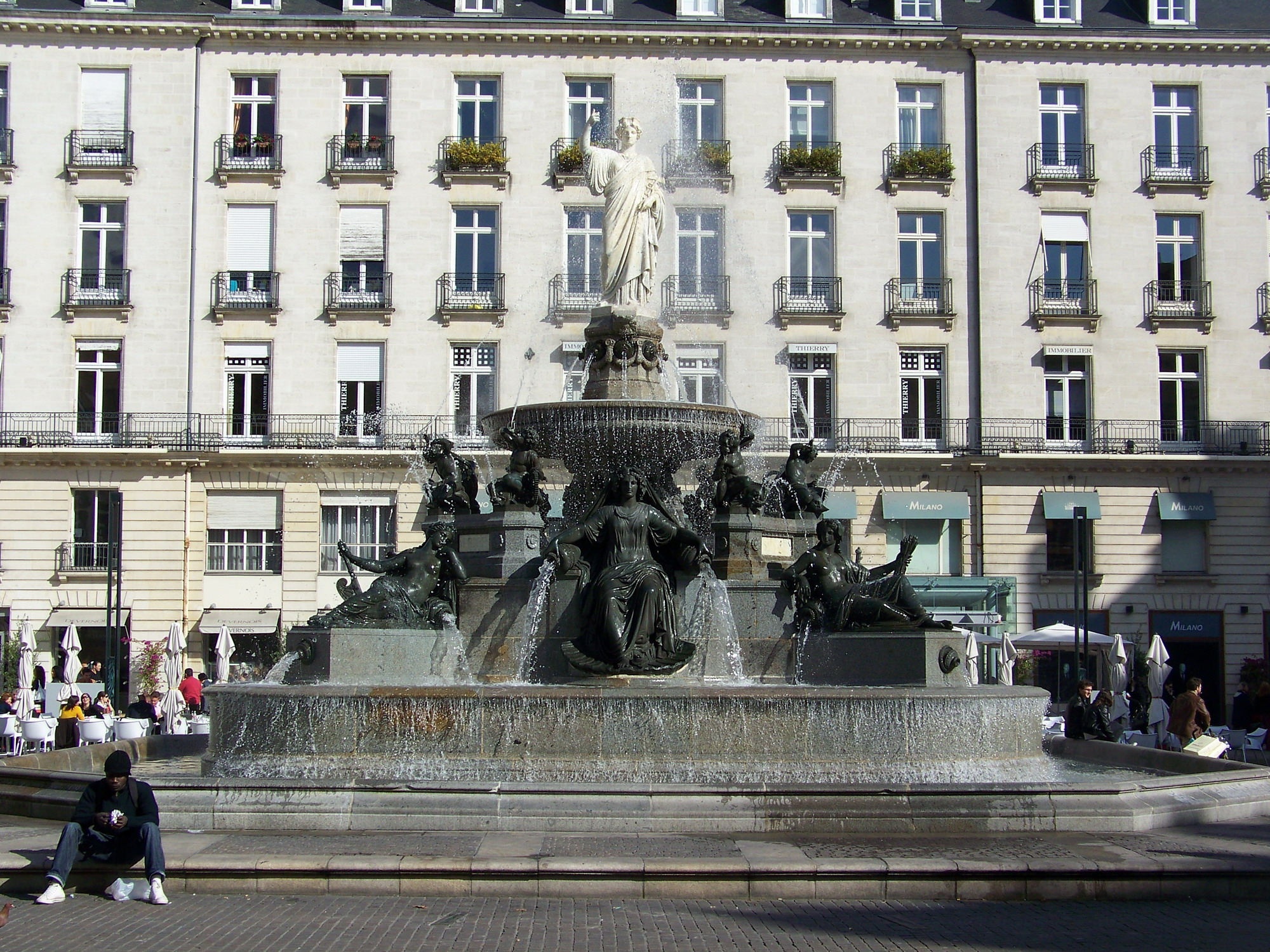 Fountain of the Place Royale in Nantes. It shows allegorical figures of Nantes (top), of the Loire river (front) and of its tributaries: the Erdre (front left), the Sèvre nantaise (front right), the Cher (right, hidden) and the Loiret (left, hidden). Architect of the place: Mathurin Crucy (1788). Fountain by Daniel Ducommun de Locle, Guillaume Grootaërs and Simon Voruz (1865).